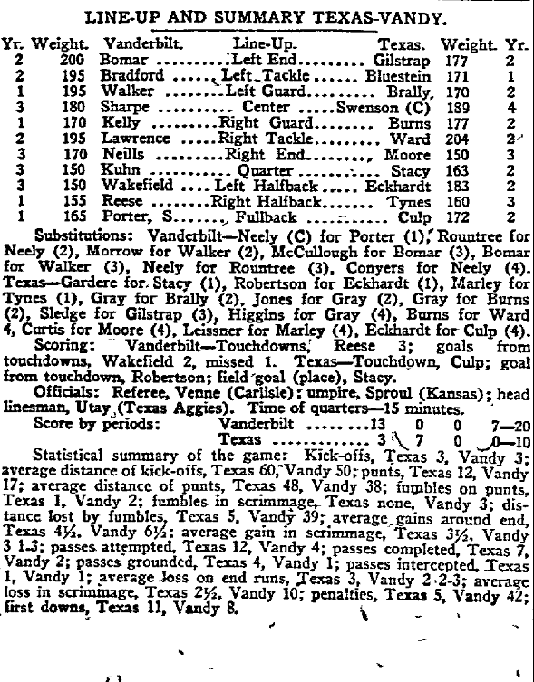 Lineup and Summary of Texas-Vandy football game, 1922